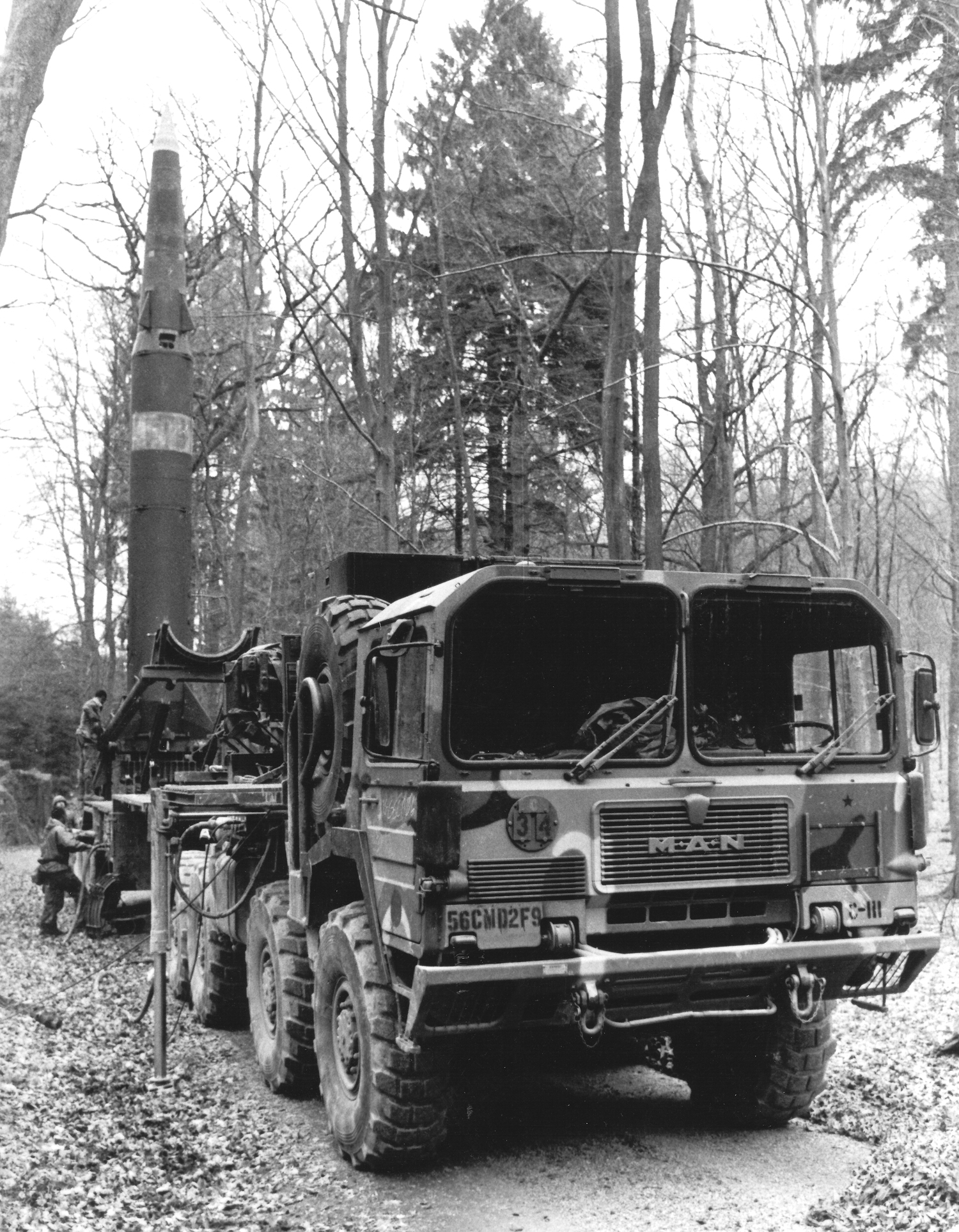 Pershing II (MGM-31B), MAN-Truck; C Battery, 2nd Battalion, 9th Regiment, 56th Field Artillery Command (Pershing). The units of 2nd Bn, 9th FA were stored in Mutlangen, Germany